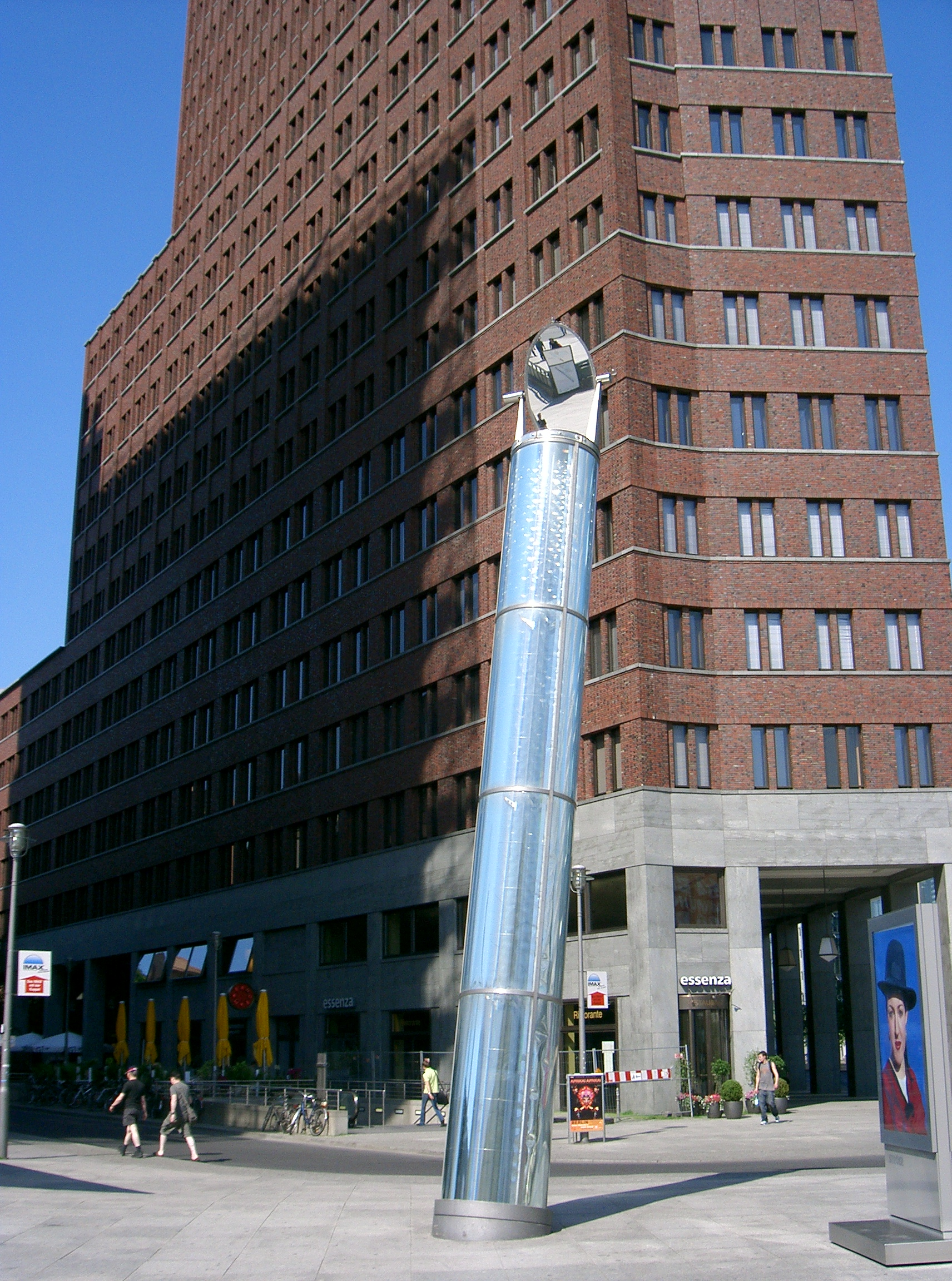 One of three light pipes that transport natural daylight to the underground railway station Berlin Potsdamer Platz.